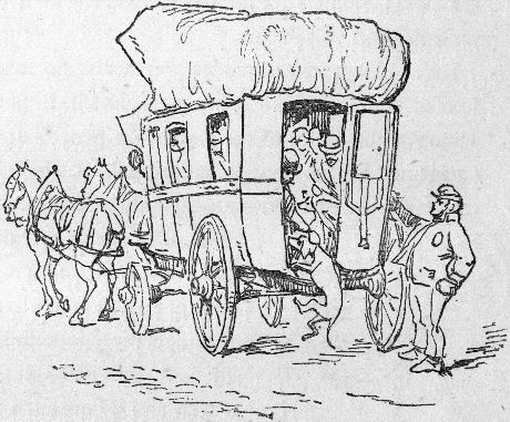 An illustration from Jules Verne's short story "Dix heures en chasse" (1881) drawn by Gédéon Baril.